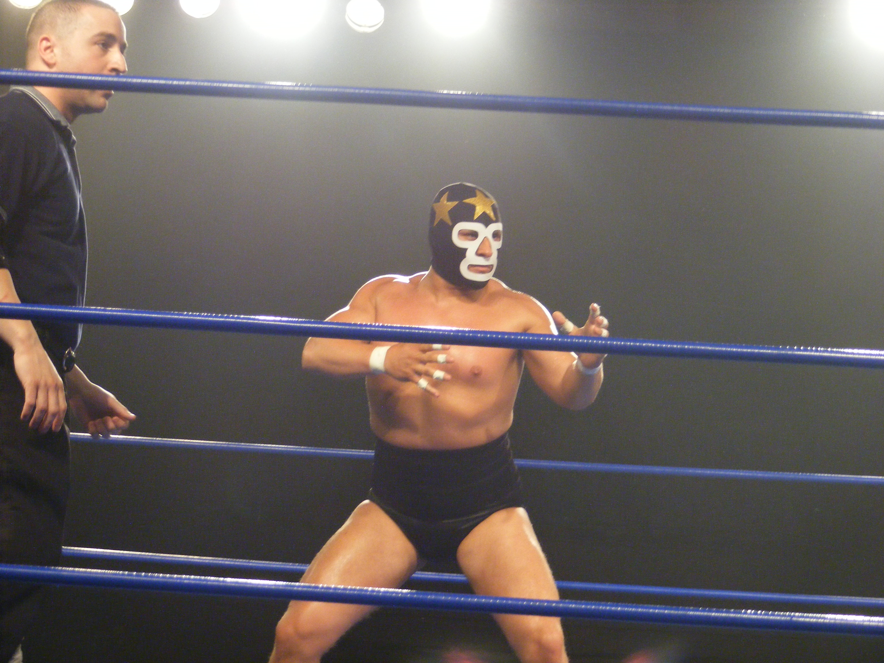 Professional wrestler Matt Classic (Colt Cabana) at a Chikara event on April 23, 2010